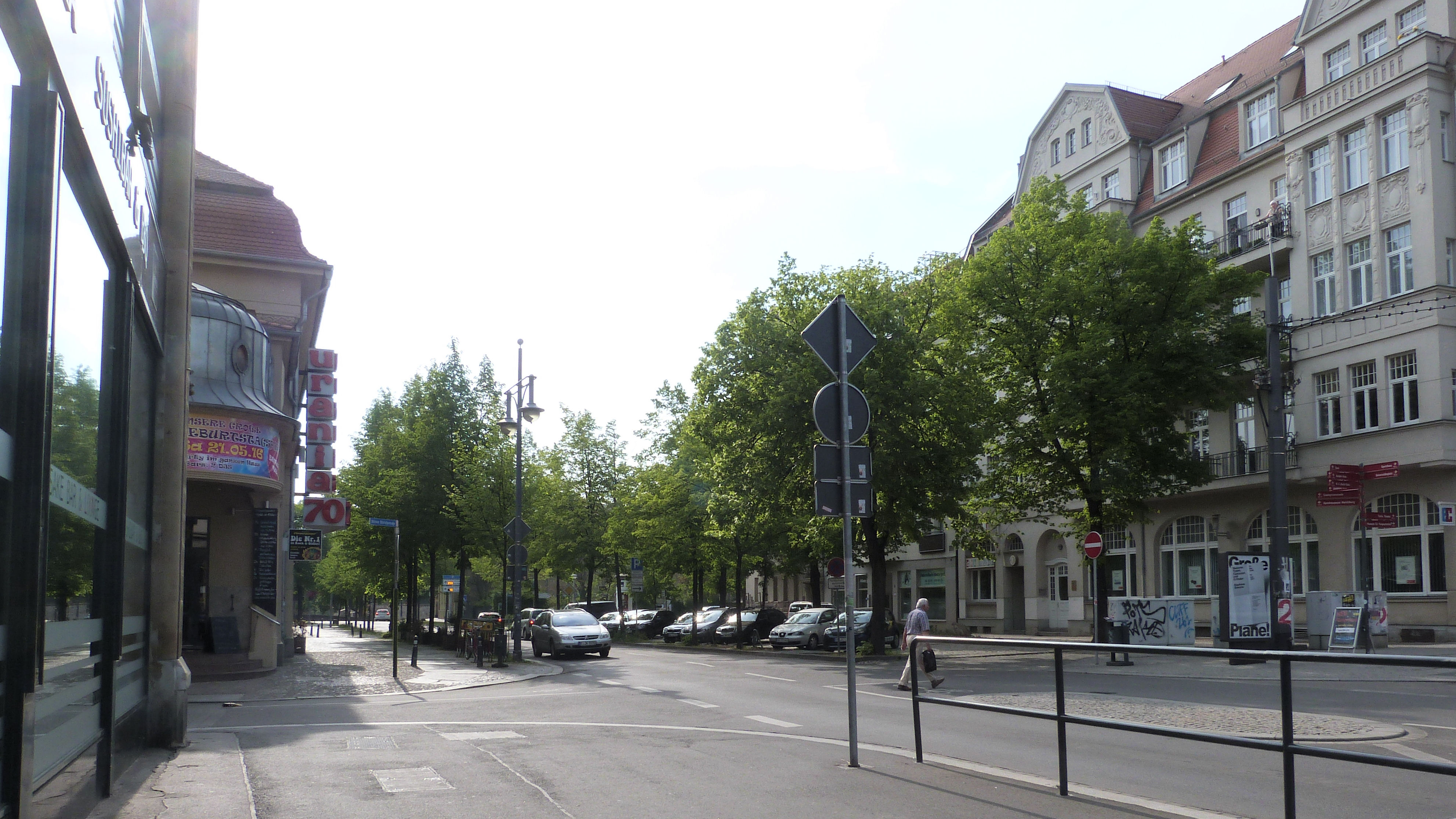 Street Moritzburgring in Halle (Saale), view from the Universitätsring